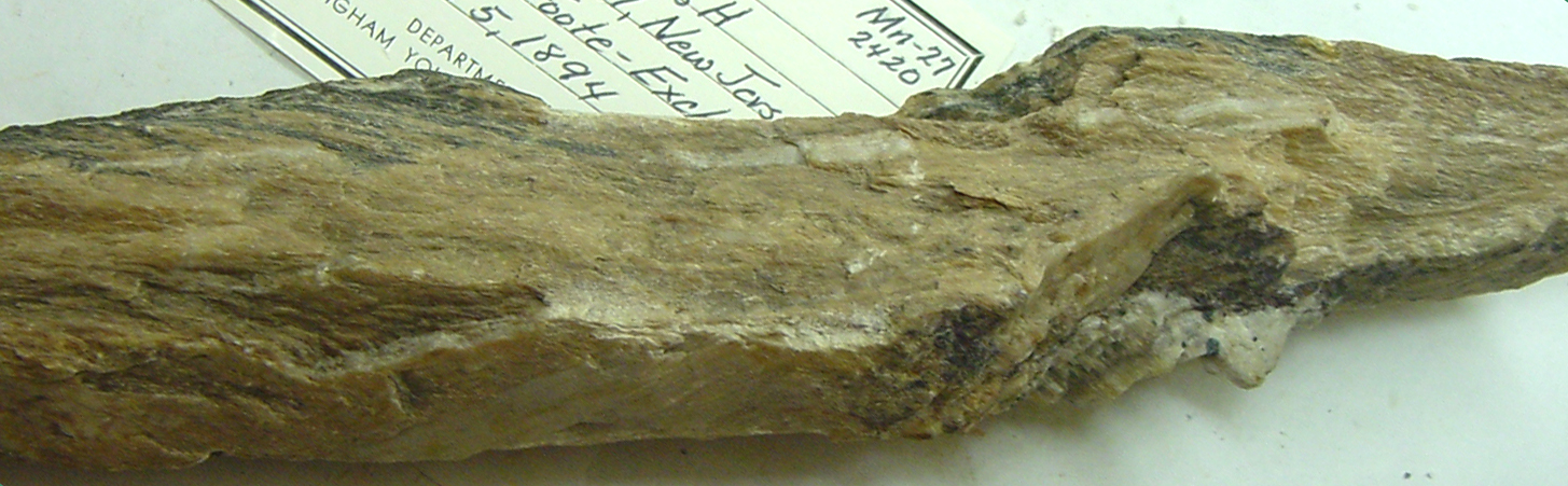 Sussexite. Collected by A. E. Foote, January 5, 1895, from Mine Hill, New Jersey. Mineral collection of Bringham Young University Department of Geology, Provo, Utah. Photograph by Andrew Silver. BYU index 8- 2057, MnBO_3H.